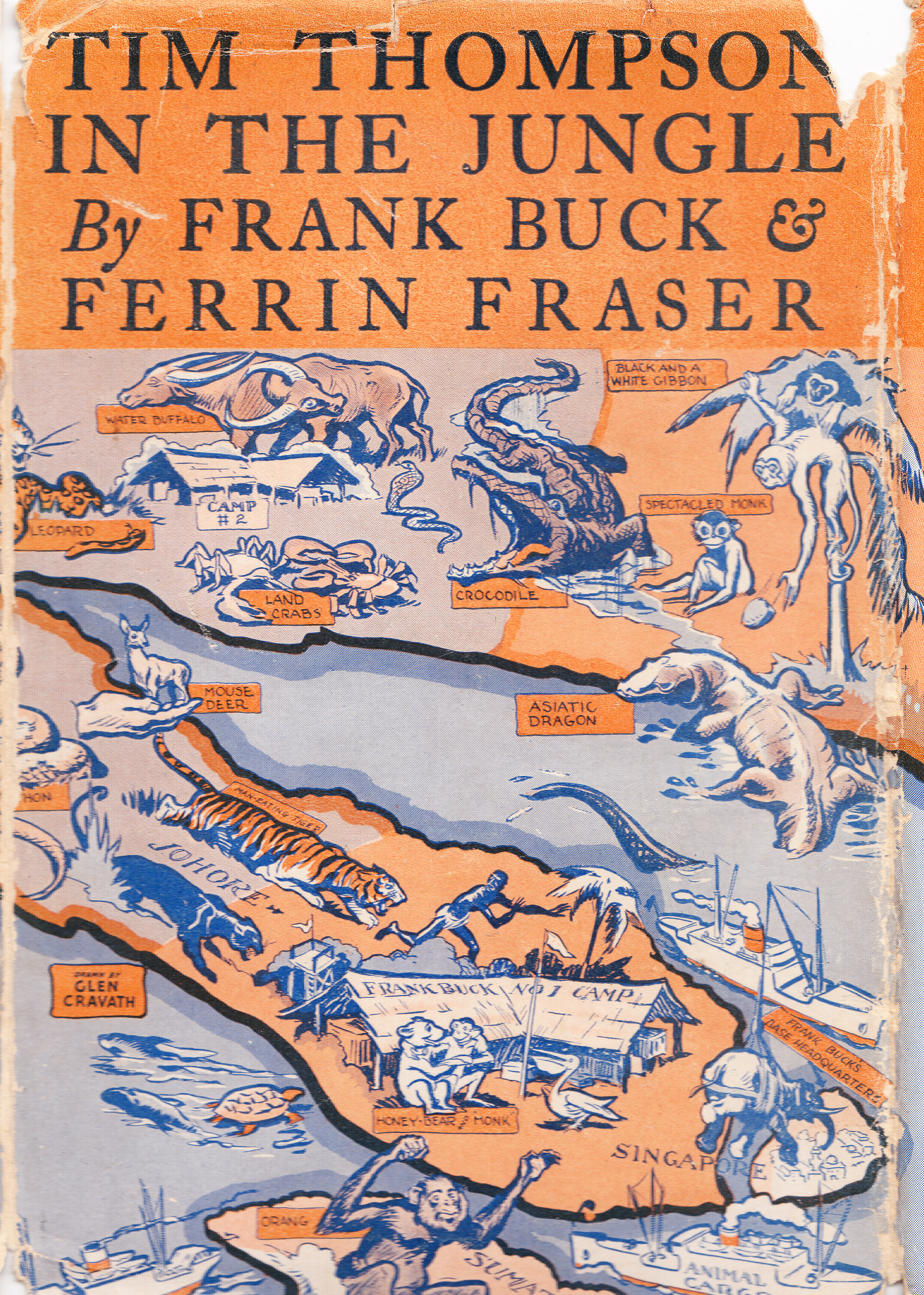 This is a dust jacket for the book, Tim Thompson in the Jungle.